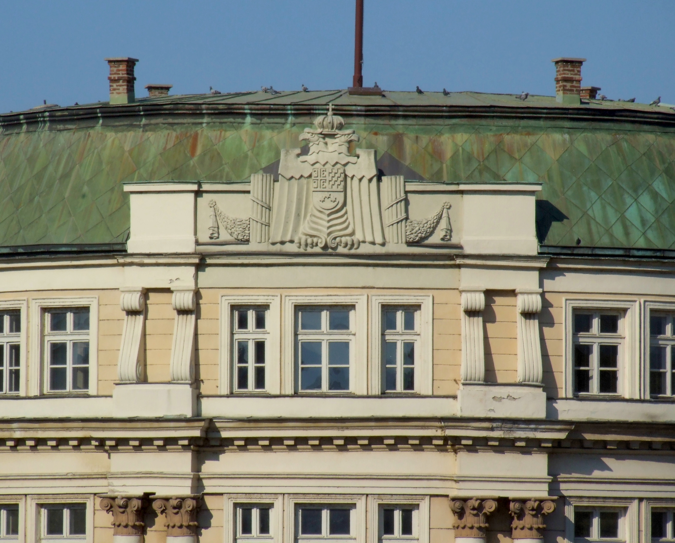 University of Niš - Emblem of Kingdom of Yugoslavia 03″ N, 21° 53′ 37.96″ E